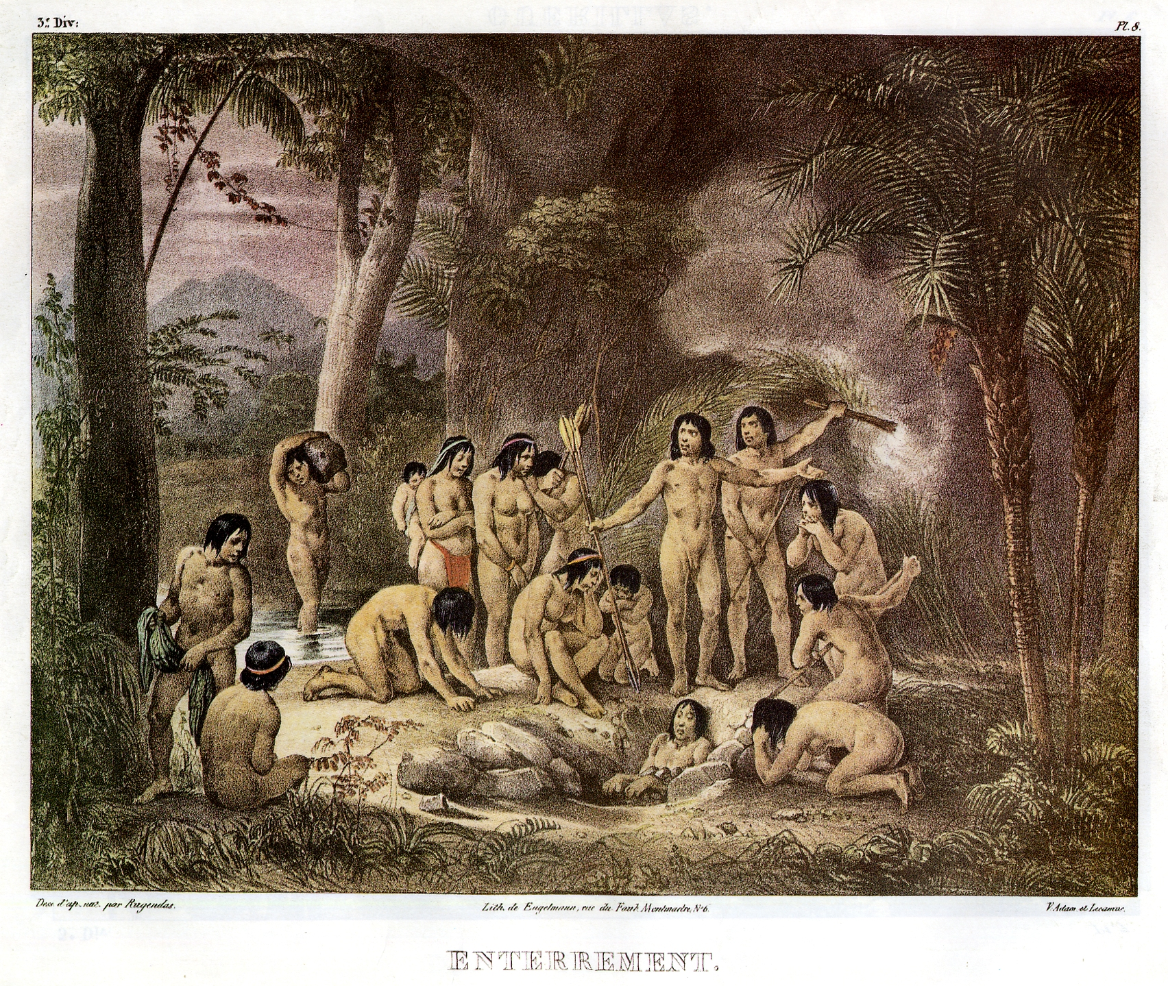 Painting of artist Johann Moritz Rugendas. Original title: "Enterrement". Title Translation: "Burial". Engraving from the book Voyage pittoresque dans le Brésil (Pitoresque Travel Through Brazil) First publish in 1835.Plate 8, 3rd Division